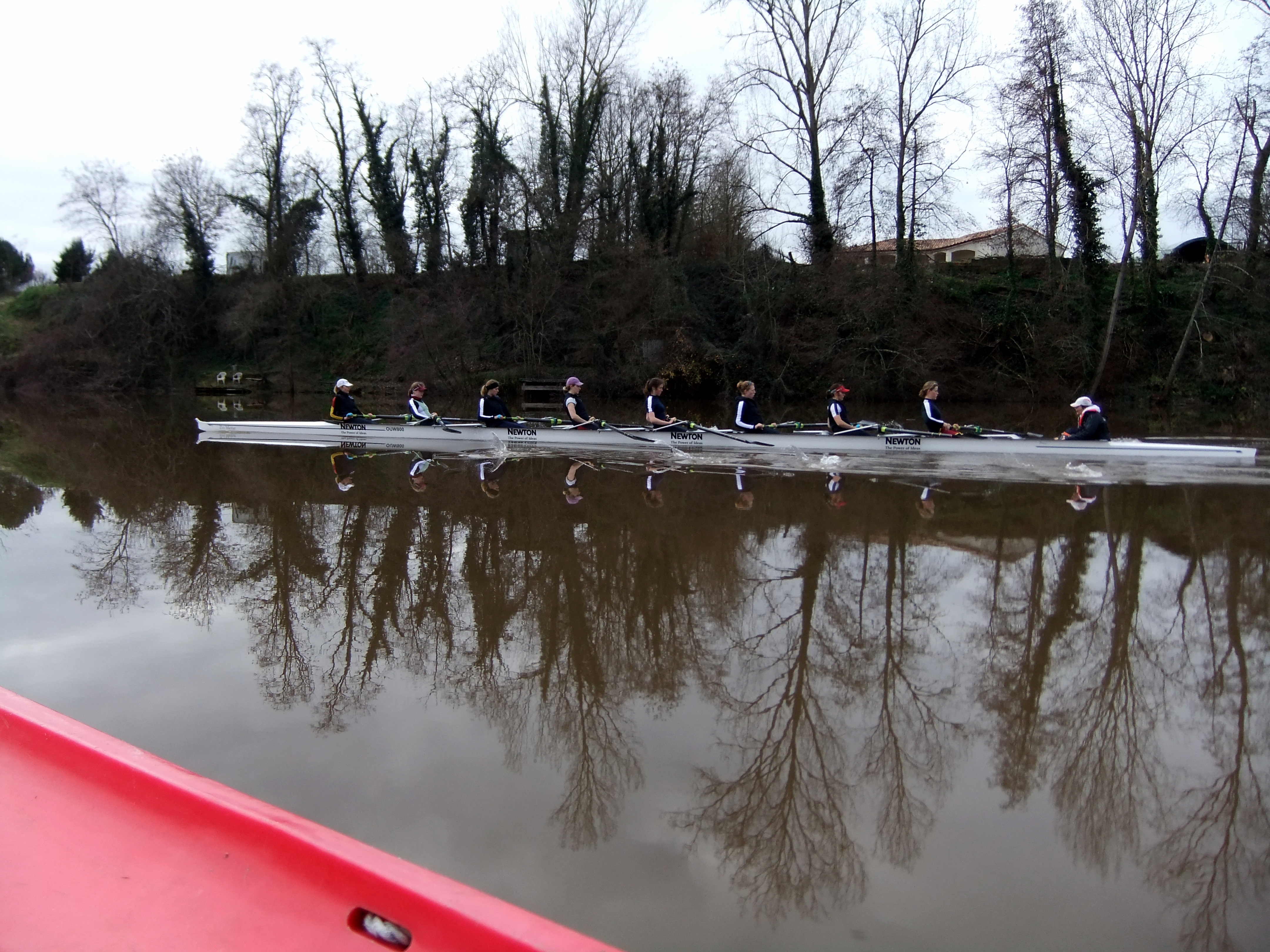 OUWBC Blue Boat in training in January 2012